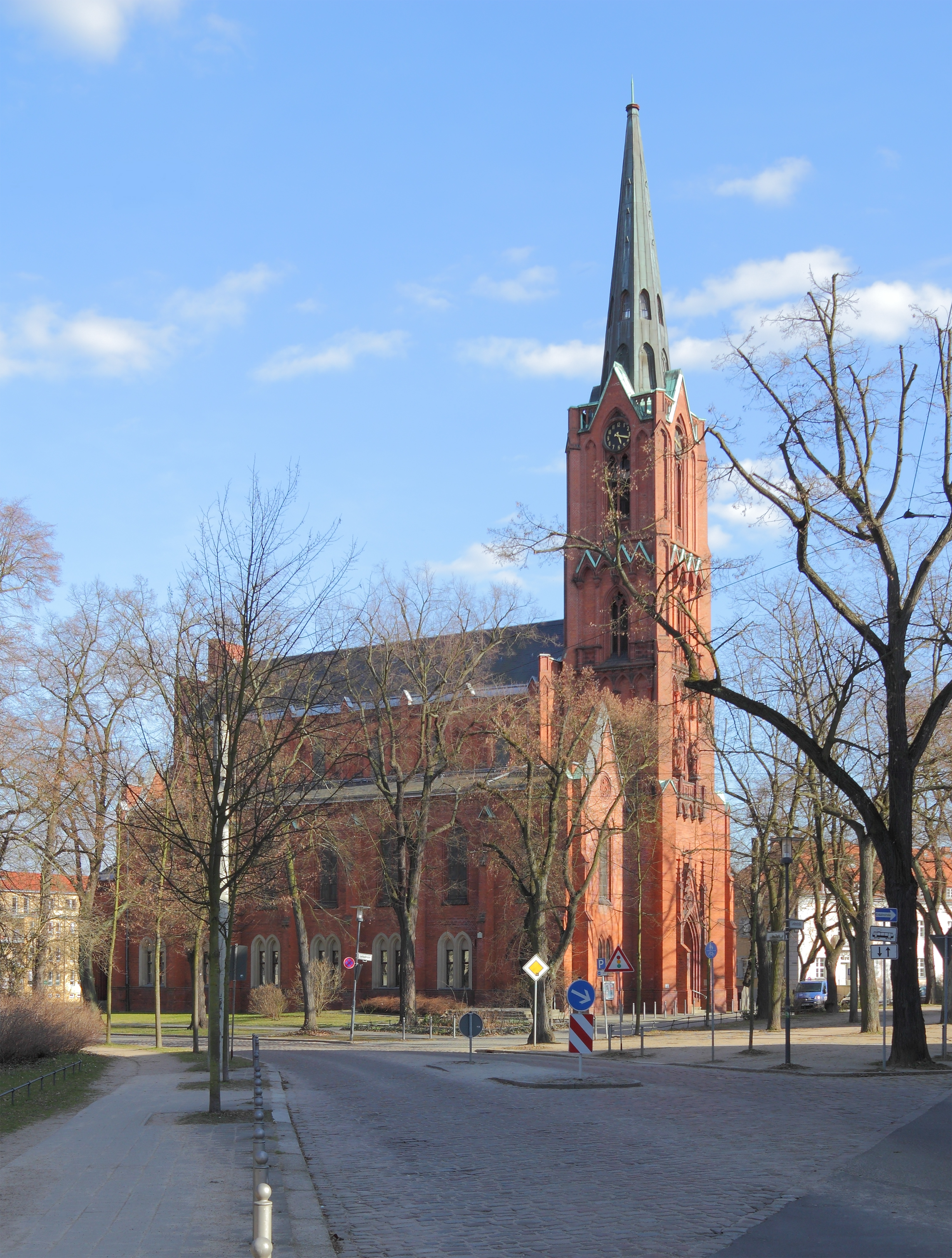 St. Gertrude Church, Frankfurt (Oder), Brandenburg, Germany